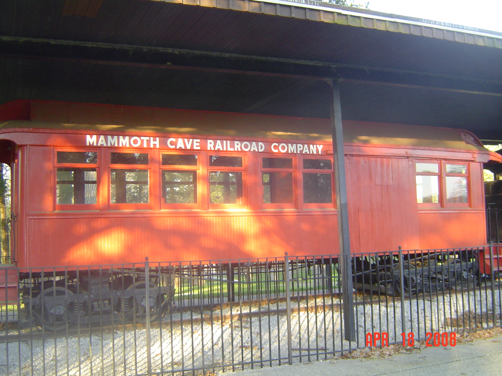 Mammoth Cave Railroad coach